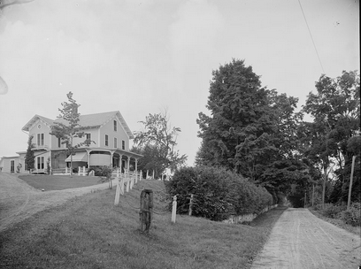 The Maples, residence of Mrs. Julia C.R. Dorr, Rutland, Vt.